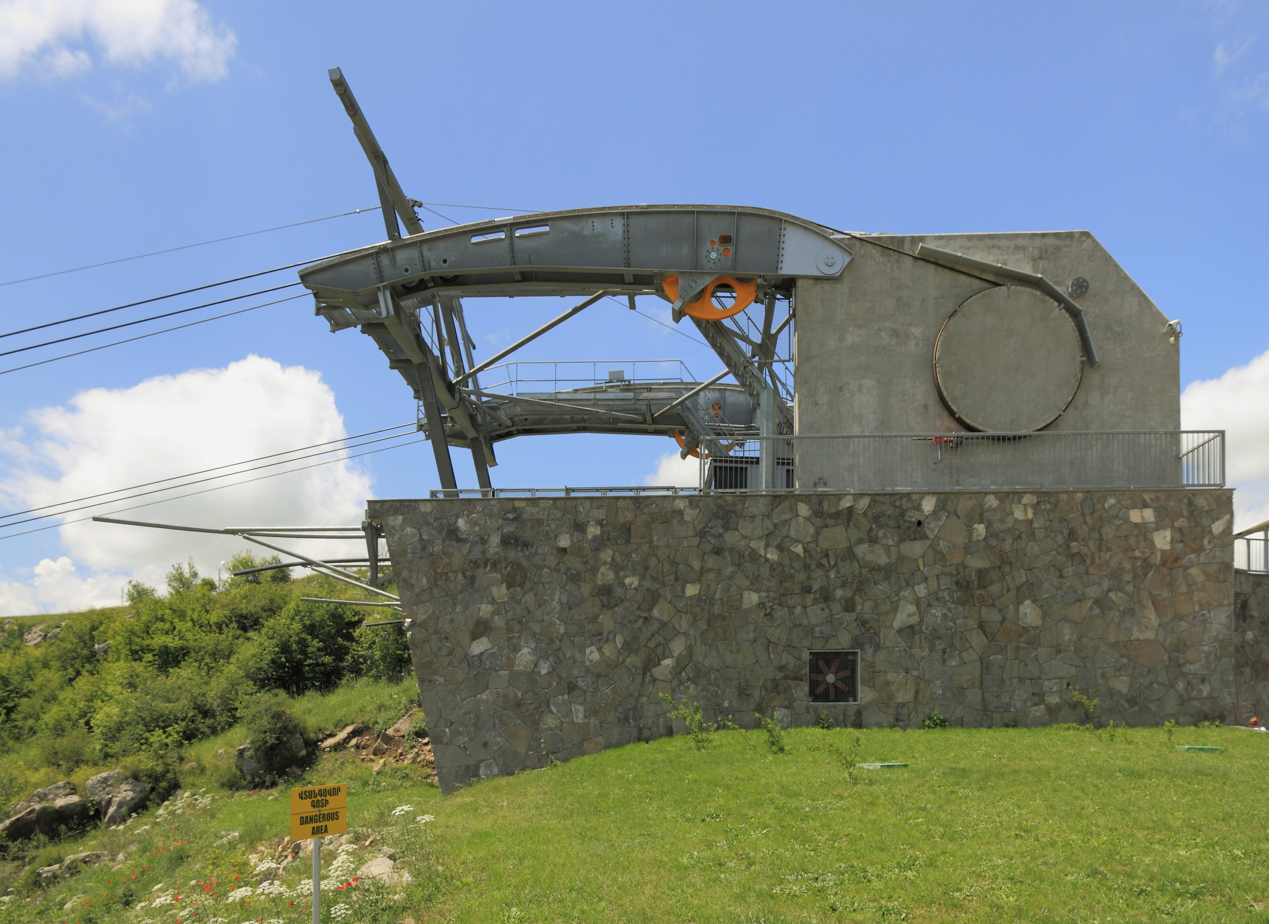 Lower station "Halidzor". Wings of Tatev. Syunik Province, Armenia.